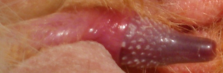 Penis of a domestic cat, glans protuded